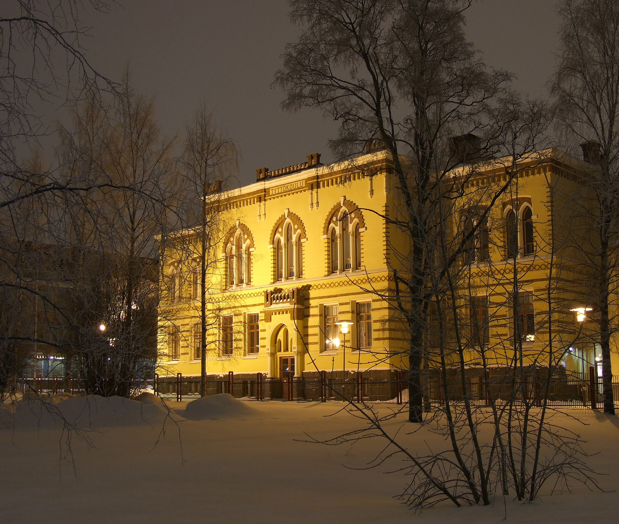 Myllytulli School in Myllytulli, Oulu, Finland. The building is also known as "Tipala" and it was built to be as secondary school for girls in 1901. The building was designed by architect Jacob Ahrenberg.